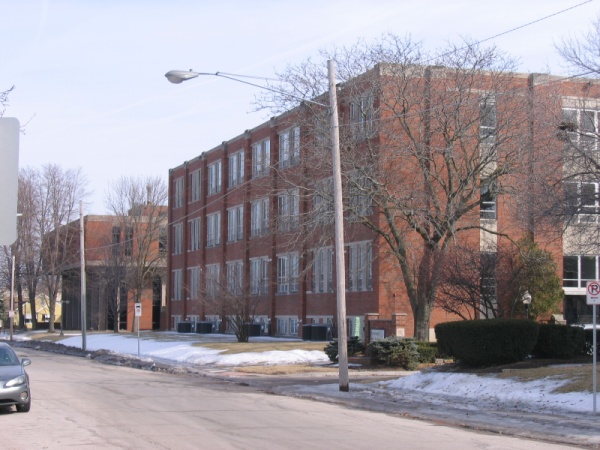 Marycrest International University